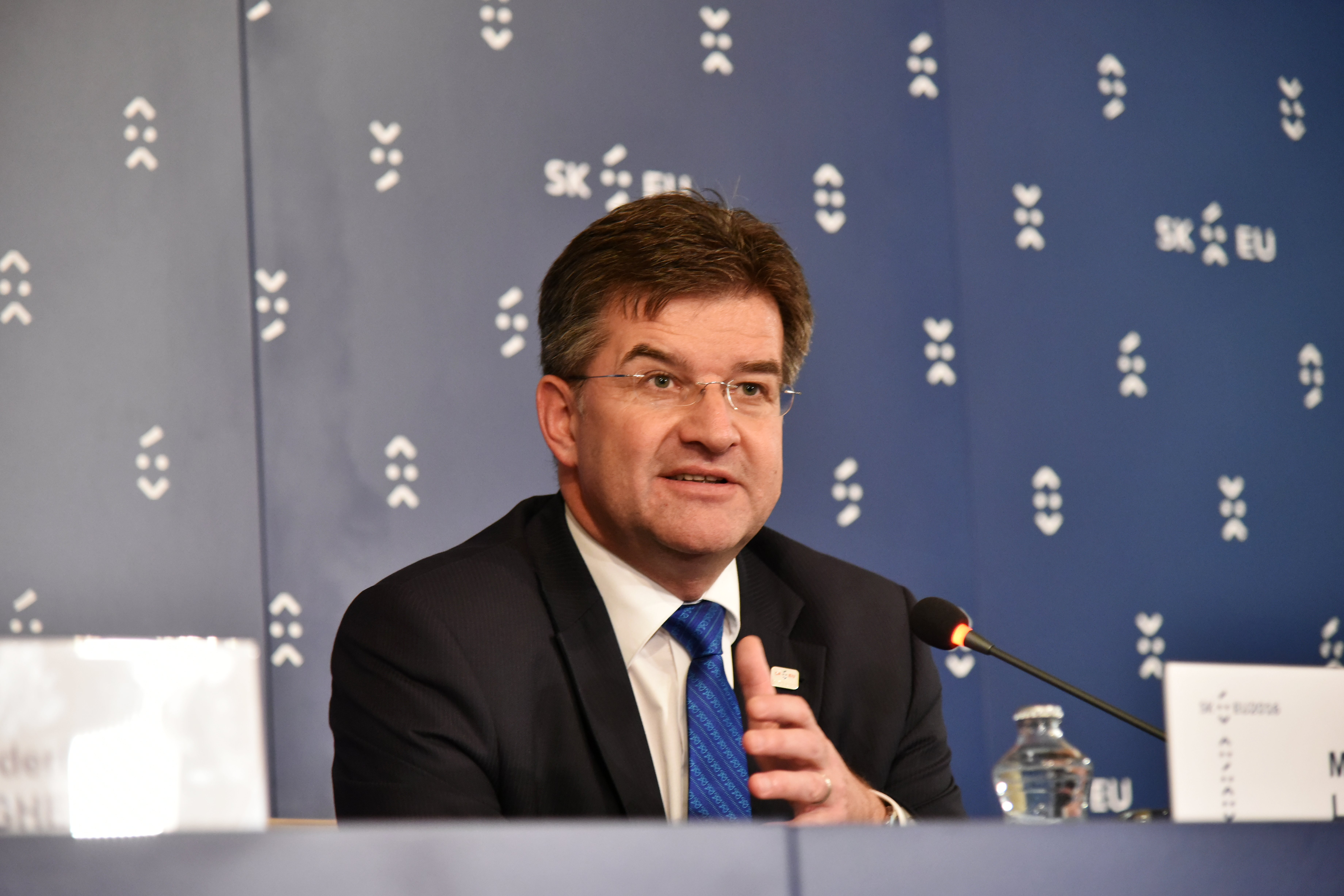 Informal Meeting of Foreign Affairs Ministers - GYMNICH European External Action Service, Mrs. Federica Mogherini, High Representative of the Union for Foreign Affairs and Security Policy / Vice President of the Commission and Mr. Miroslav Lajcak, Minister of Foreign and European Affairs of Slovak Republic ph halime sarrag